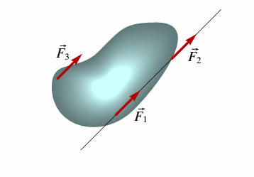 vetor